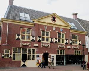 Front Vermeer Centre Delft